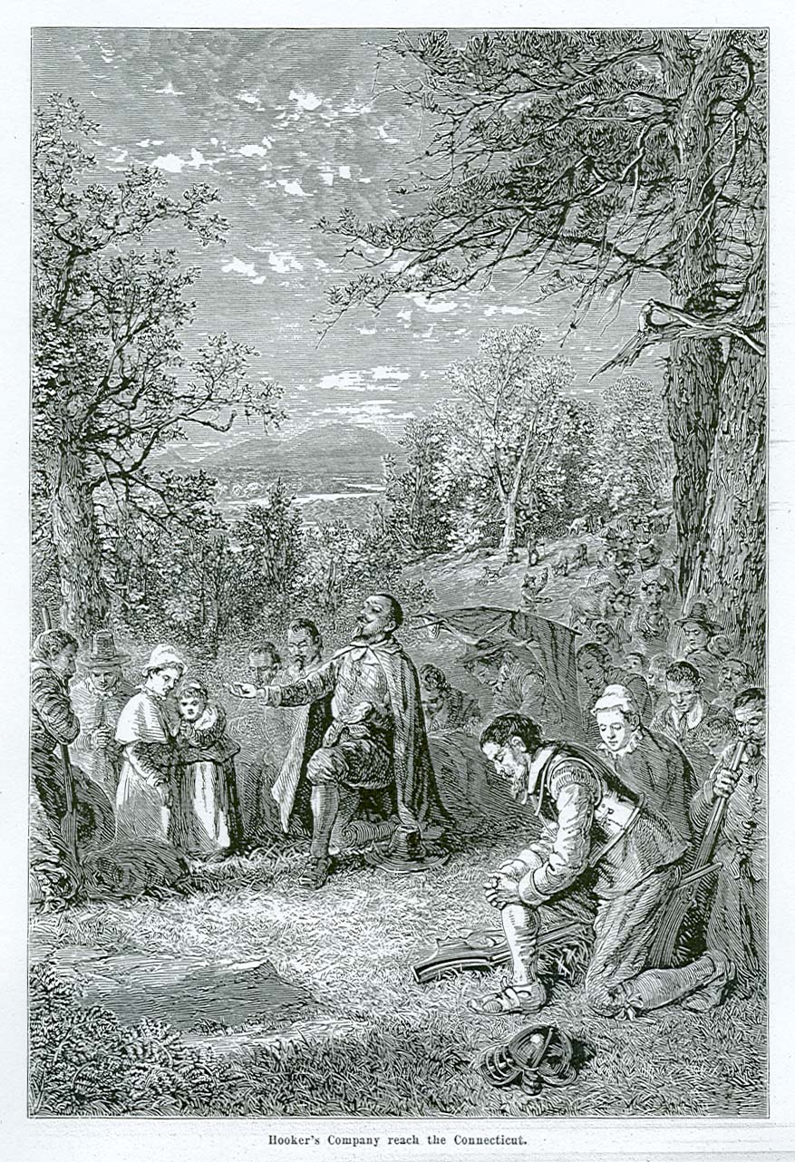 "Hooker's Company reach the Connecticut". This image was not directly scanned from the engraved image itself.